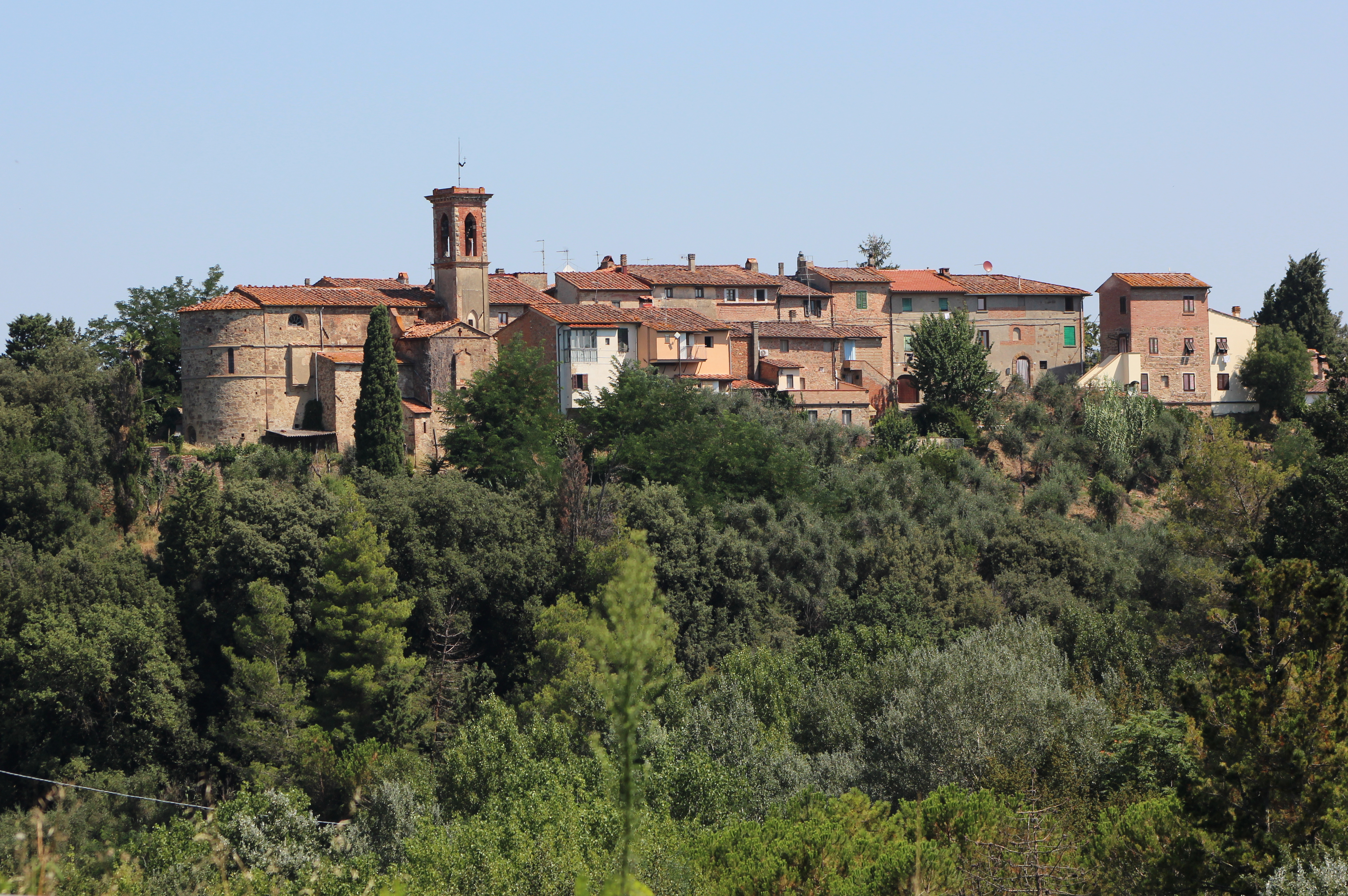 Montecchio, hamlet of Peccioli, Province of Pisa, Tuscany, Italy